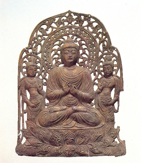 Group of gilt-bronze Buddhist plaques from Anapji, Treasure of South Korea No. 1475